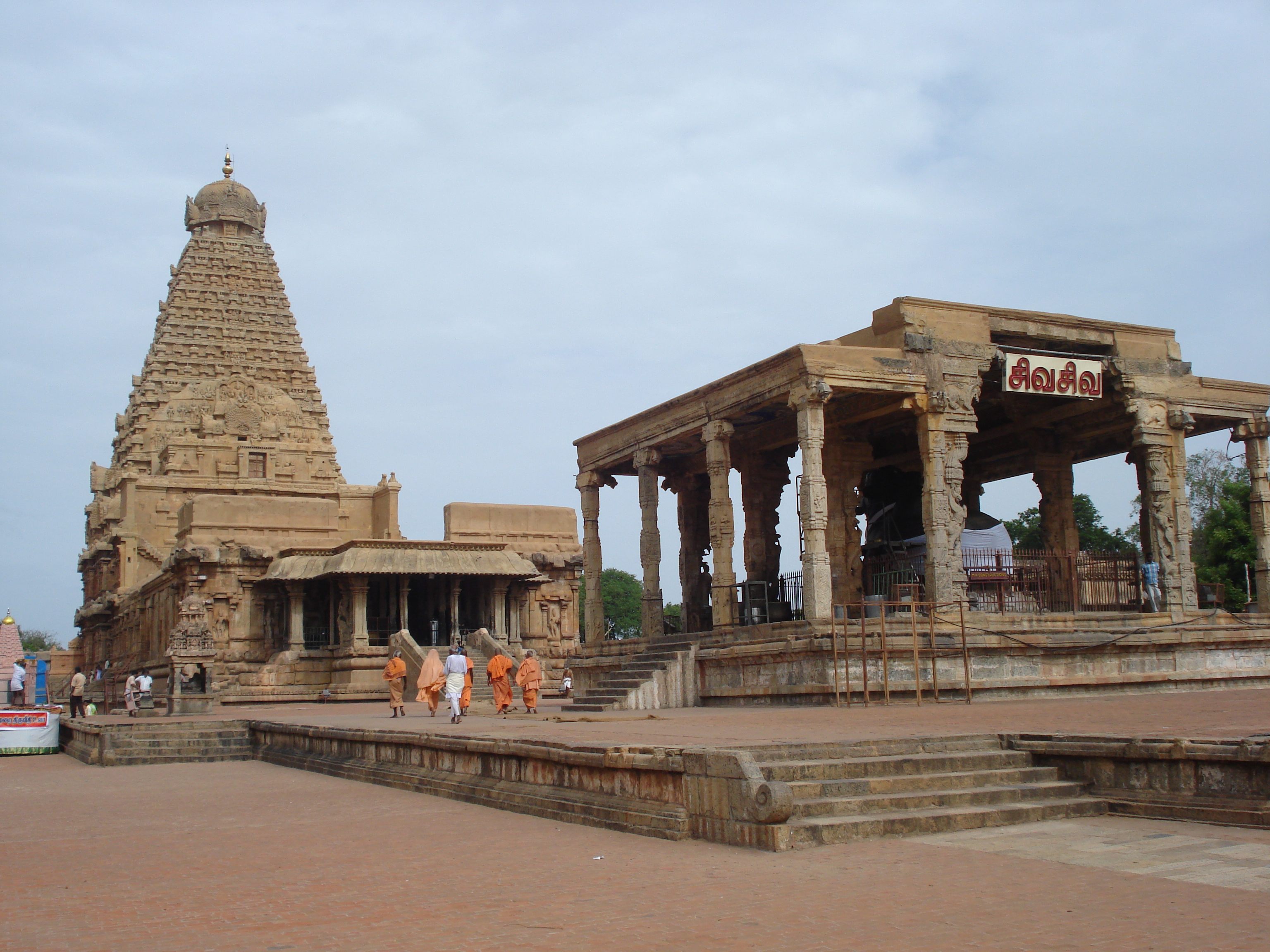 Brihadeeswarar temple in Thanjavur, Tamil Nadu